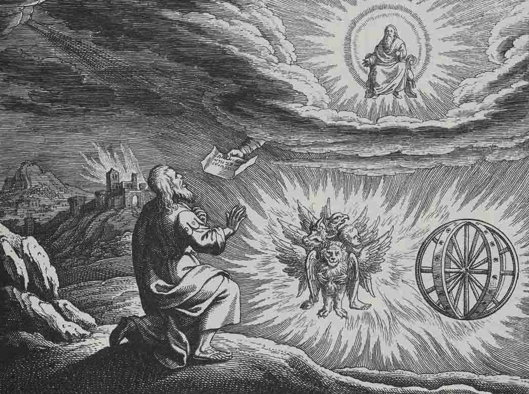 Engraved illustration of the "chariot vision" of the Biblical book of Ezekiel, chapter 1, made by Matthaeus (Matthäus) Merian (1593-1650), for his "Icones Biblicae" (a.k.a. "Iconum Biblicarum").